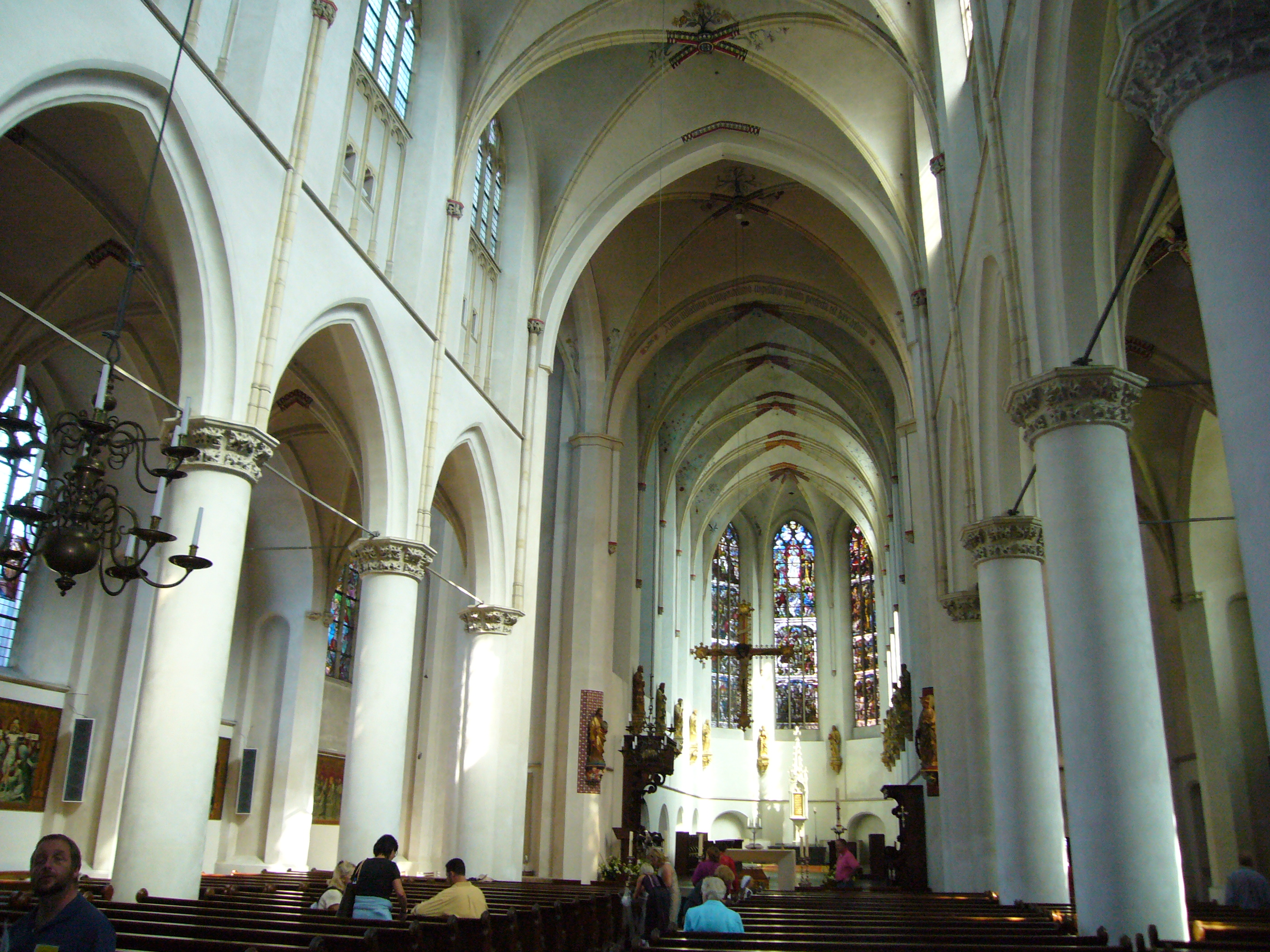 Sint-Catharinakathedraal Utrecht